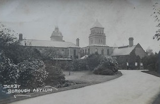 Old postcard of Derby Borough Asylum